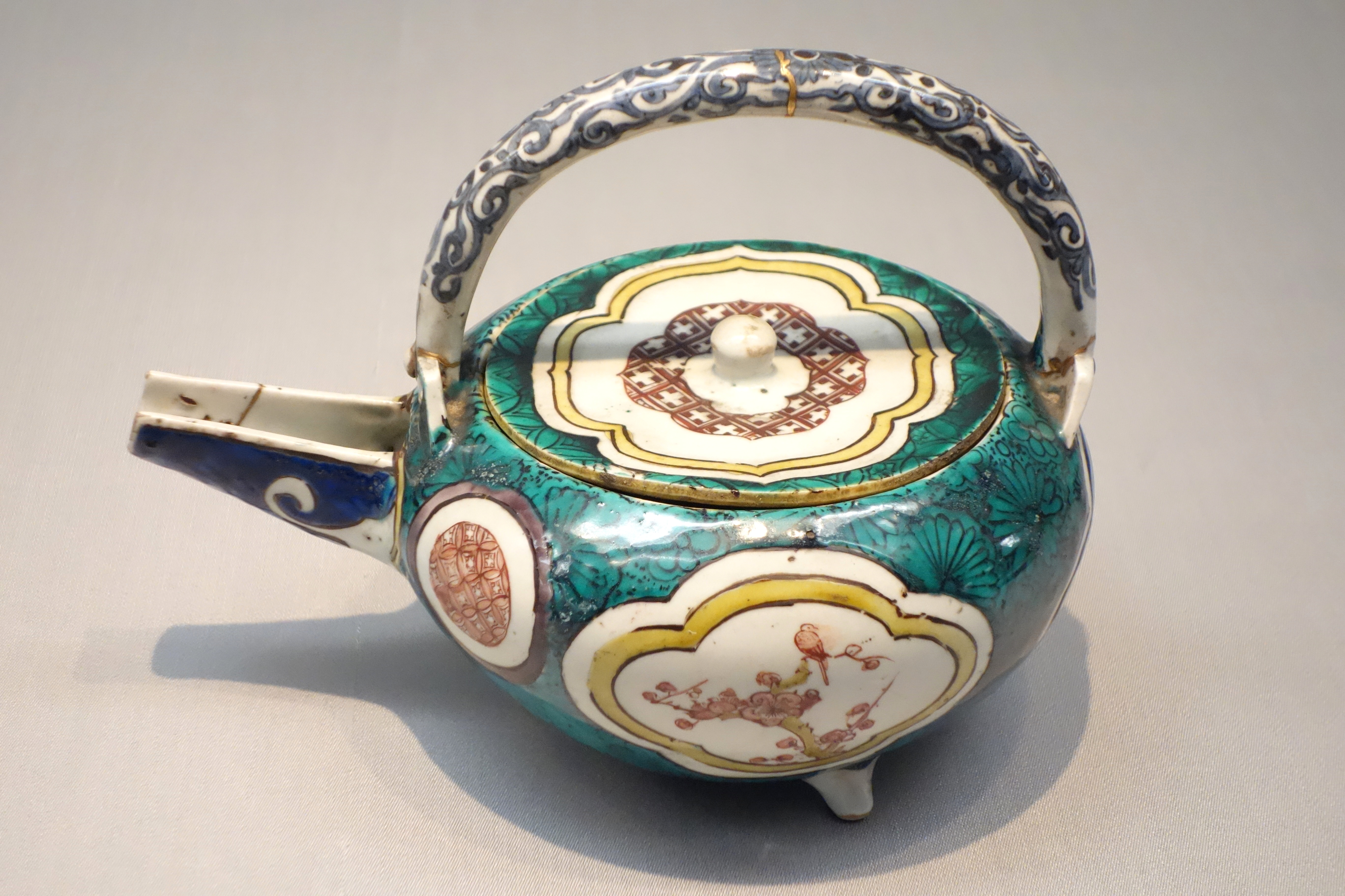 Exhibit in the Tokyo National Museum, Tokyo, Japan. This artwork is old enough so that it is in the public domain.